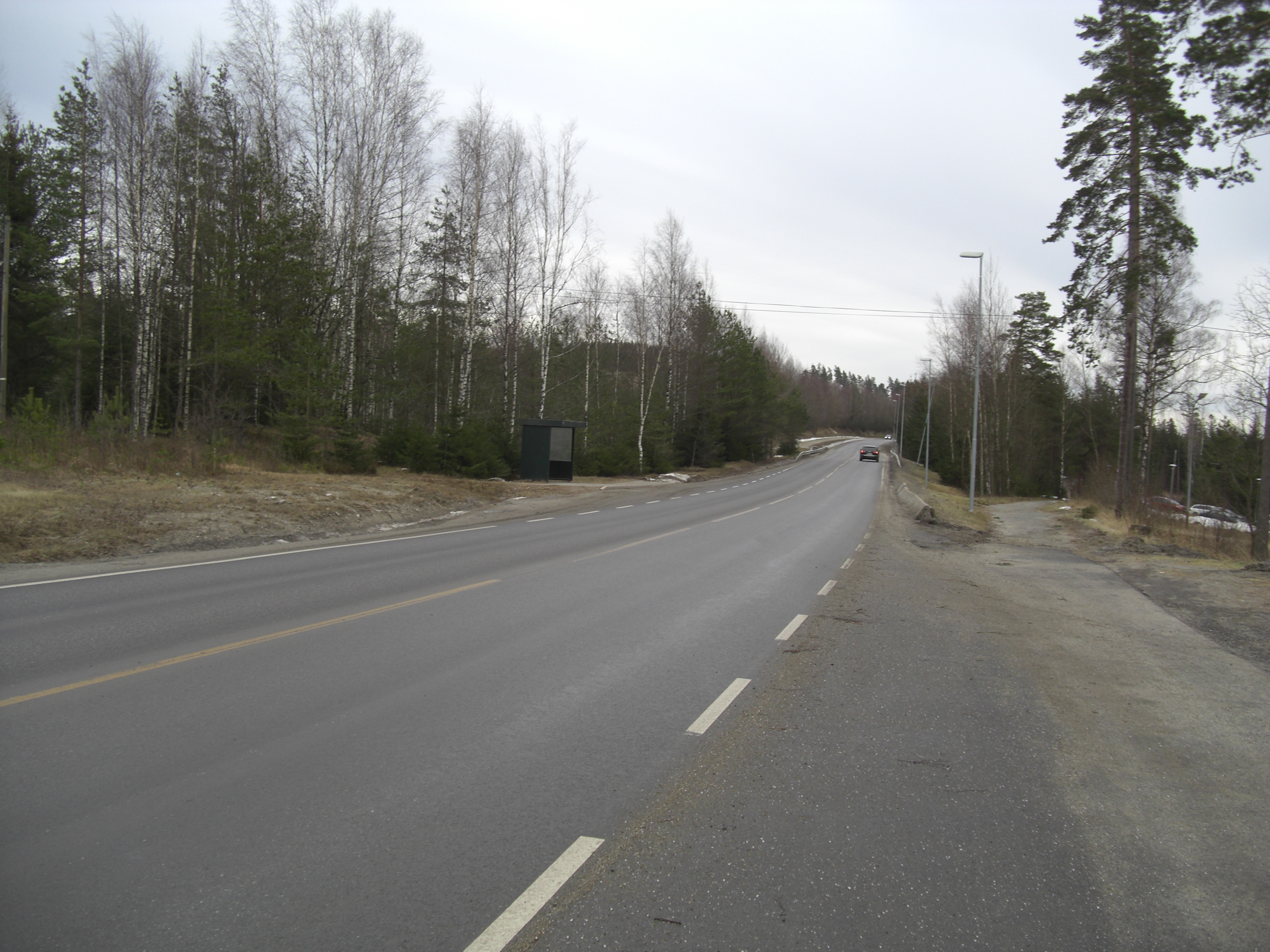 Fv 128 at Monaryggen